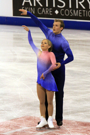 Anabelle Langlois / Cody Hay at the 2009 Skate Canada.